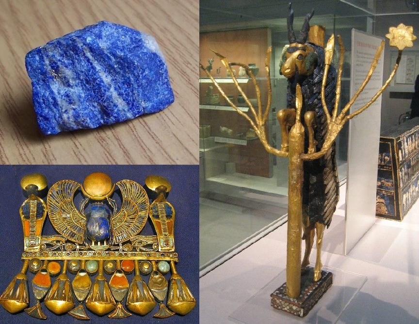 Top left: A specimen of Lapis Lazuli; Lapis Lazuli (Persian/Pashto: Lājvard) is a type of blue semi-precious stone only found in Afghanistan but coveted in the wider world for thousands of years. It crops up in the jewellery of ancient Egypt, the art of the ancient near east and as far afield as the art of the Italian Renaissance. Bottom left: Lapis lazuli used in Scarab Pectoral, from the Tomb of Tutankhamun, in the Valley of the Kings at Thebes, Anicent Egypt, c. 1361-52 BC. Right: Lapis lazuli used in "Ram in a Thicket", from the Royal Tombs of Ur, Sumer, Ancient Mesopotamia, modern day Iraq, c. 2600-2500 B.C.